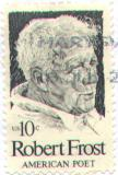 Postage stamp of the United States honoring the birth centenary of Robert Frost